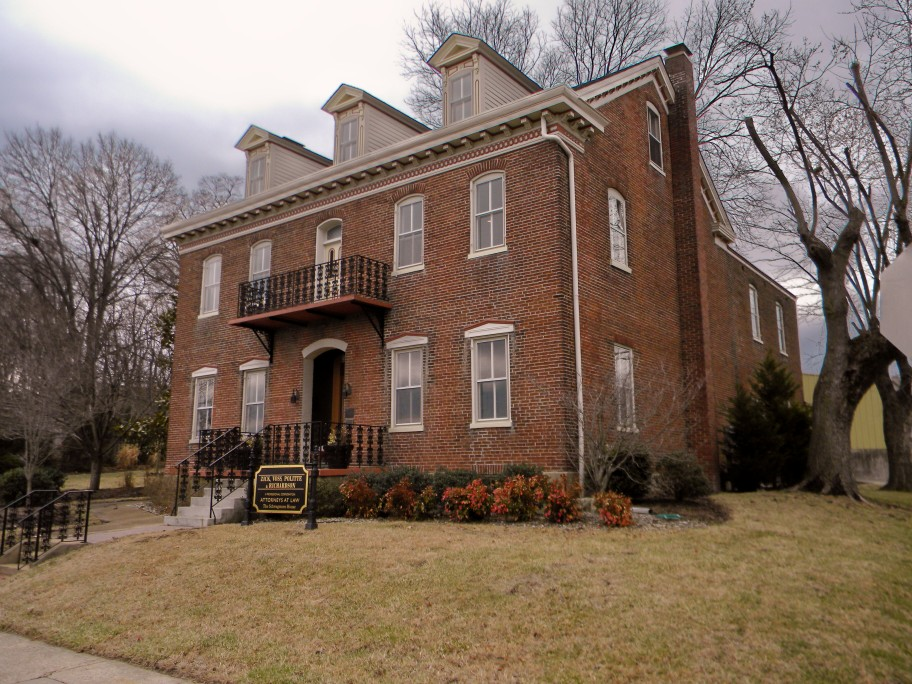 John F. Schwegmann House